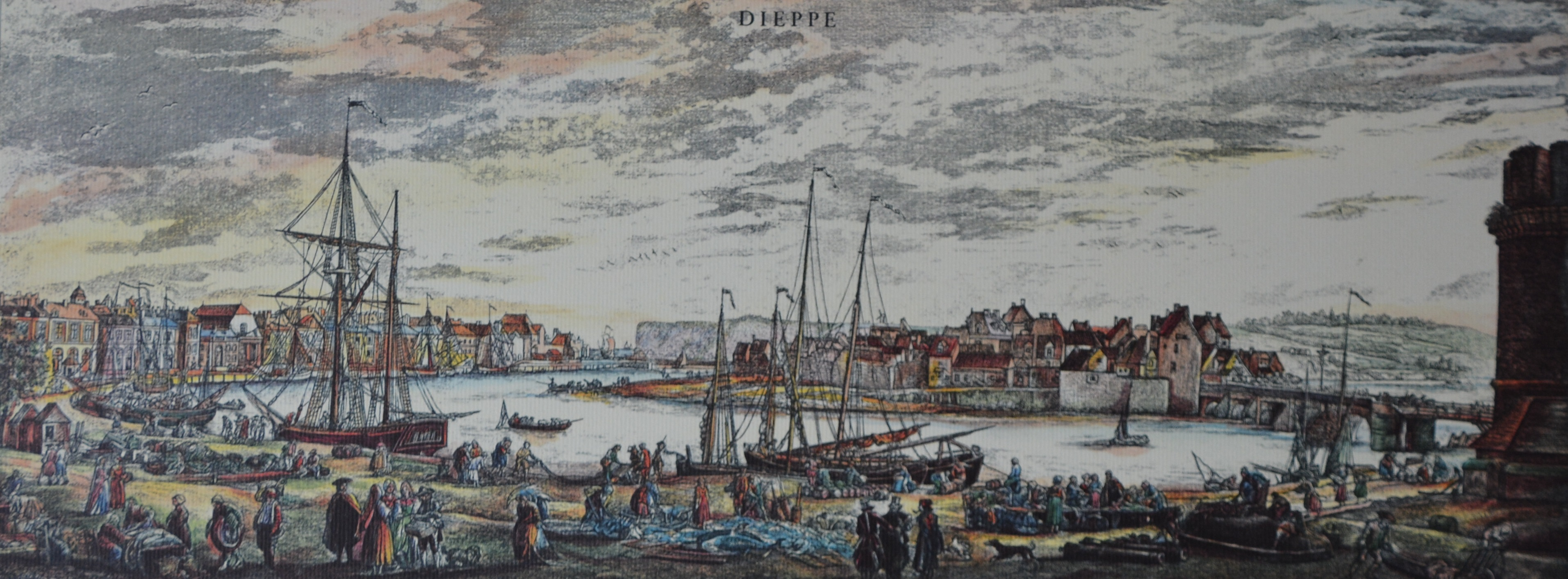 Dieppe 1778, by C.N. Cochin